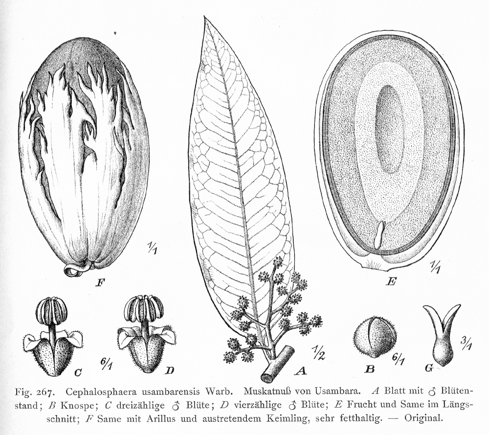 Myristicaceae Cephalosphaera usambarensis, from Vegetation der Erde (1910) Vol 9. Band 1. Fig. 267. by Adolf Engler (1844-1930)